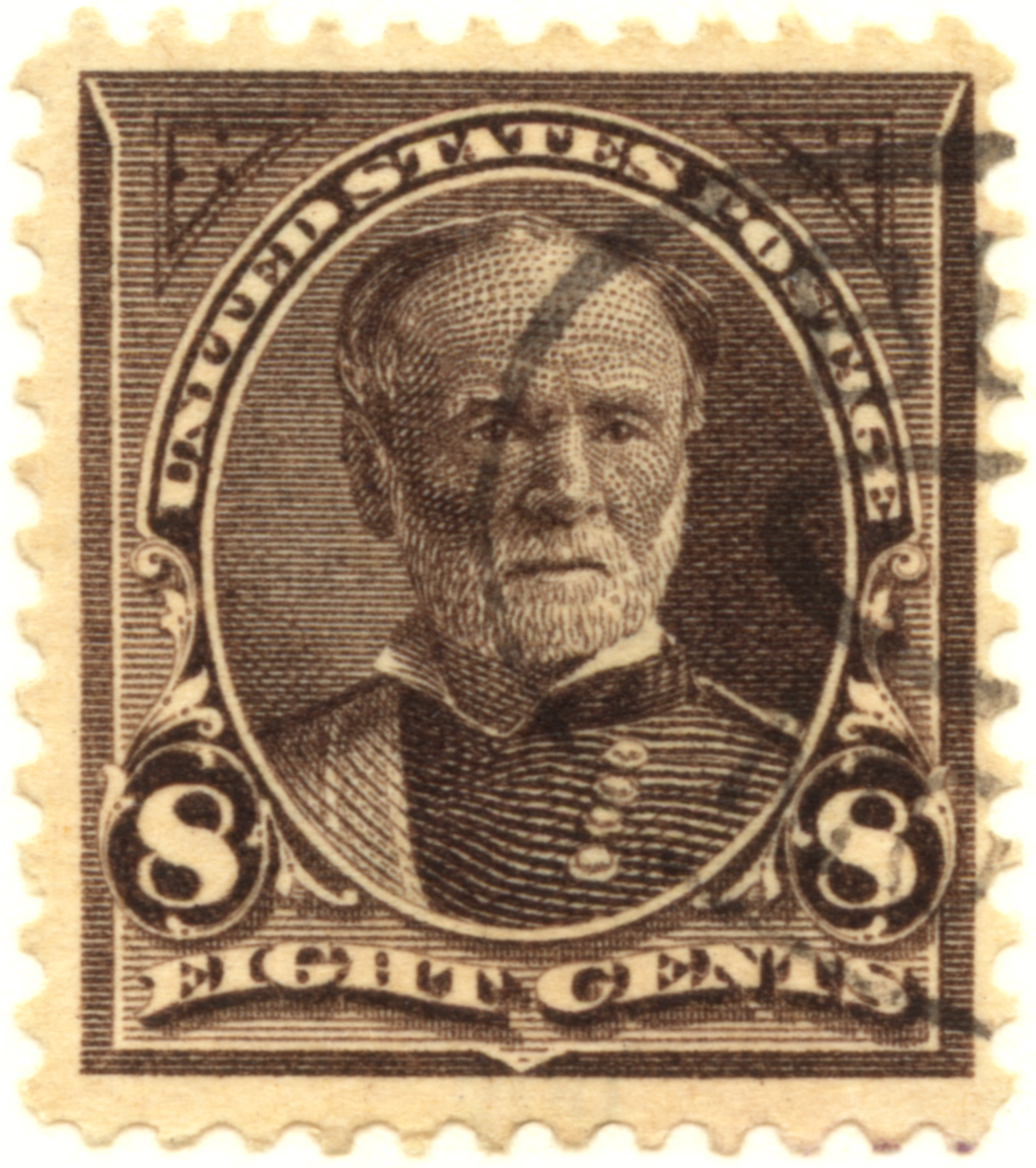 8-cent 1895 series United States postage stamp, perforated (12), depicting William T. Sherman.